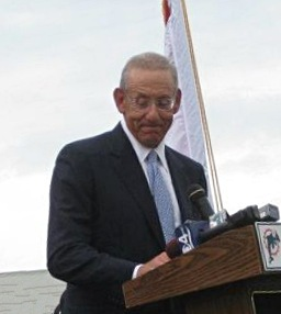 Stephen M. Ross at his alma matter Miami Beach Senior High